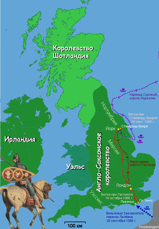 Army movements before Battle of Hastings, 1066